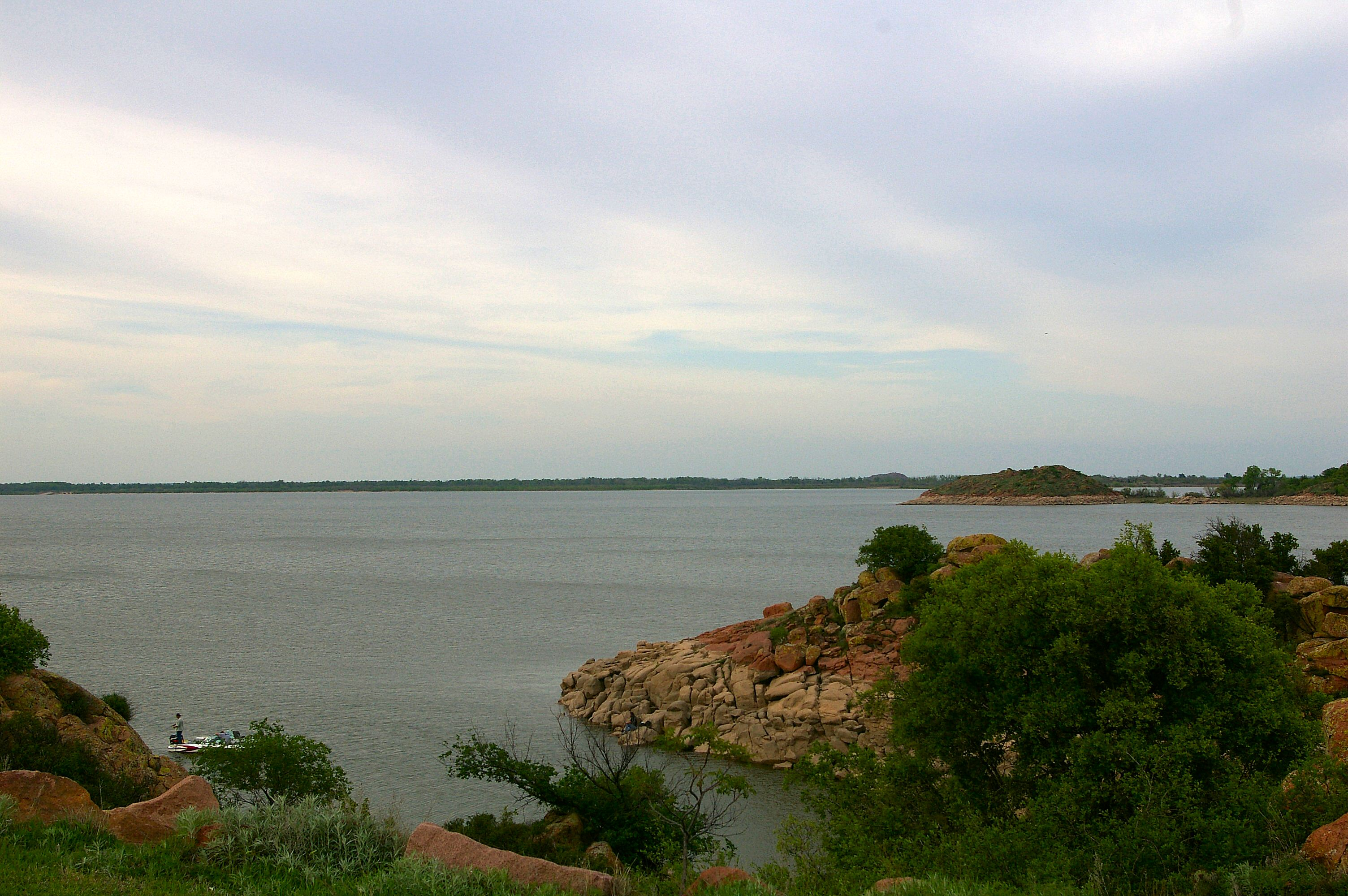 Photo of Lake Altus-Lugert in Oklahoma by James Powers